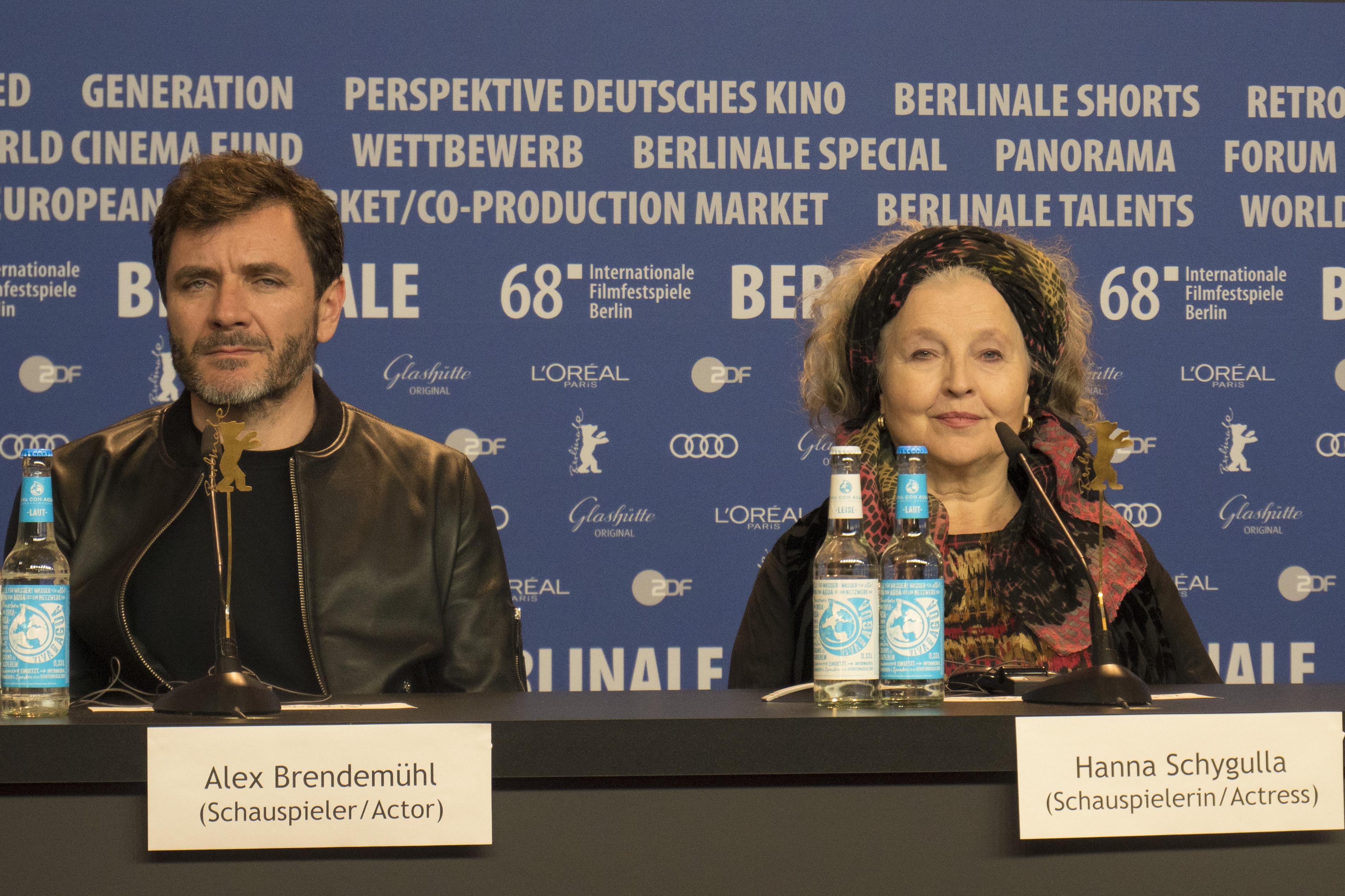 Àlex Brendemühl and Hanna Schygulla at the press conference of The Prayer at Berlinale 2018